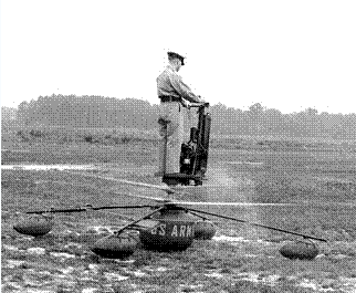 de Lackner HZ-1 Aerocycle being test flown by Captain Selmer Sundby